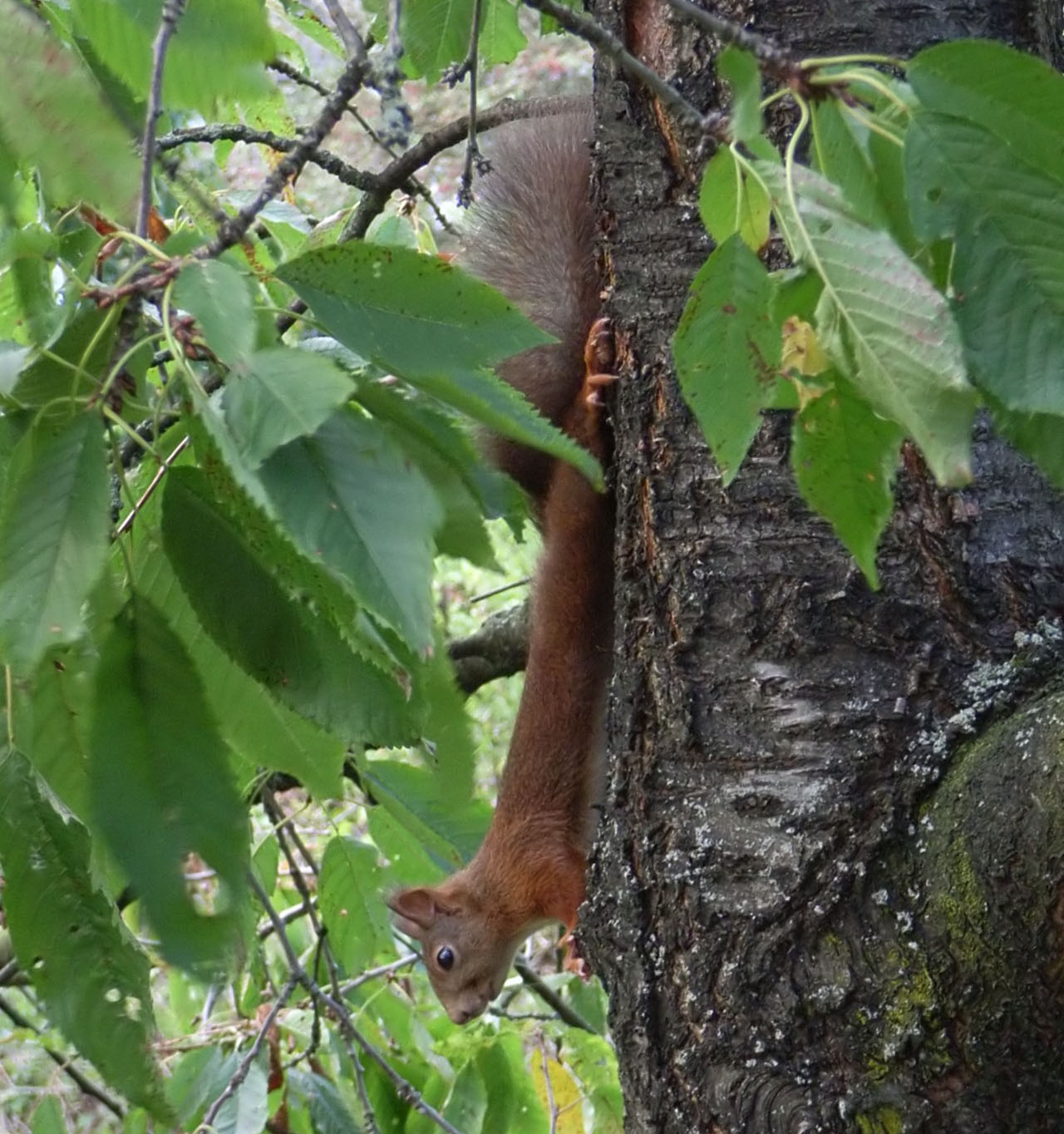 A squirrel is taking refuge on a cherry tree because of a cat.